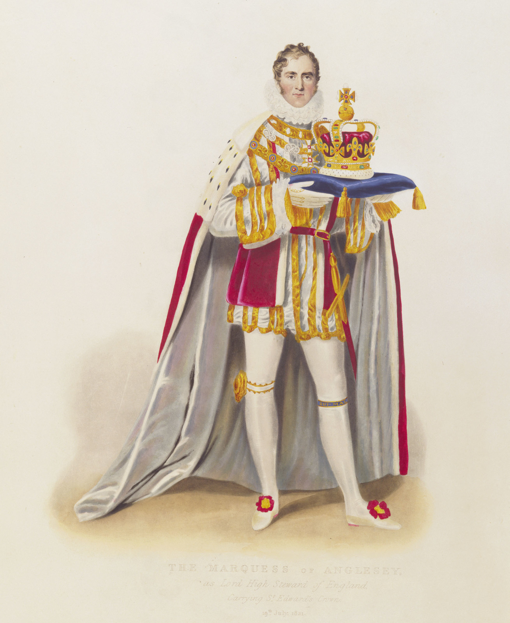 St Edward's Crown at George IV's coronation.